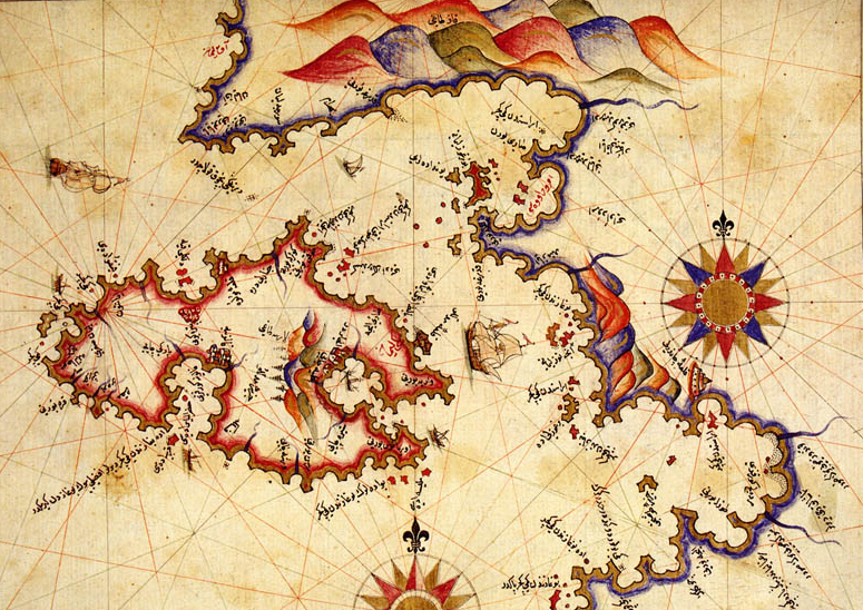 Lesbos in Greece and Ayvalık in Turkey on the Kitab-ı Bahriye (Book of Navigation) of Piri Reis